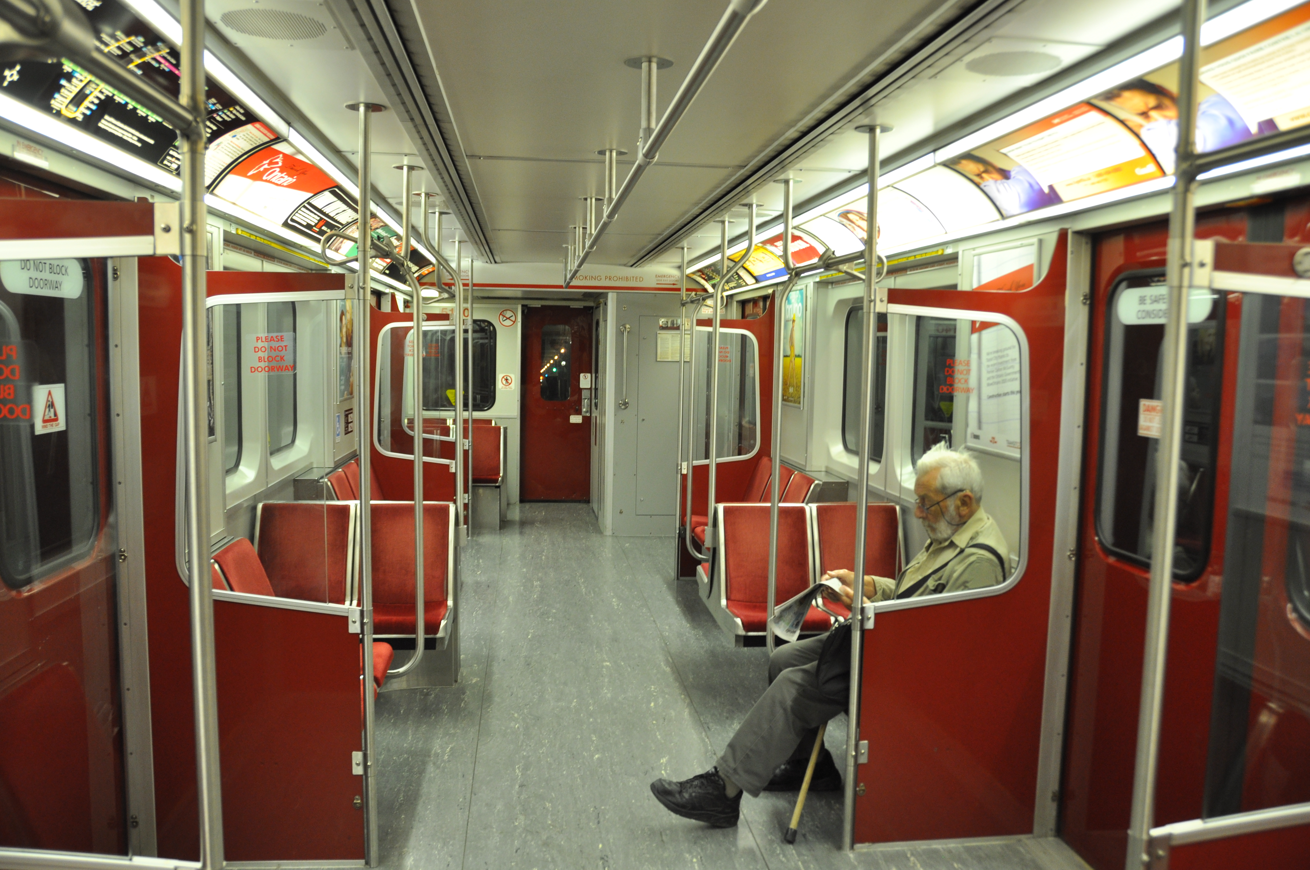 Toronto Subway Car (T-Series), Summer 2009